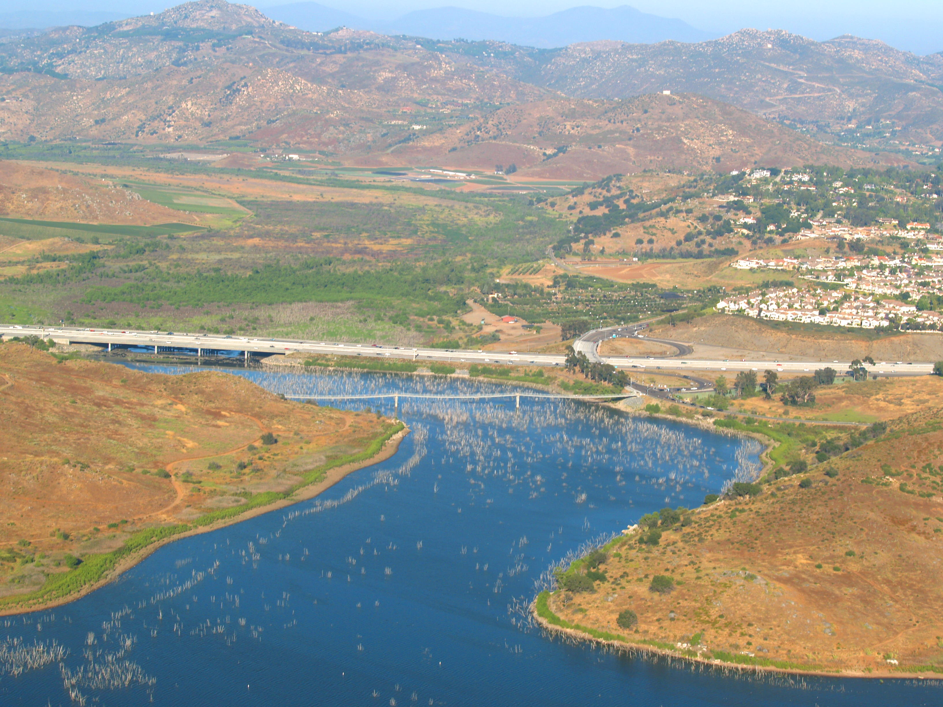 Photo of the eastern end of Lake Hodges as it goes under Interstate 15 in San Diego County, California by Phil Konstantin.